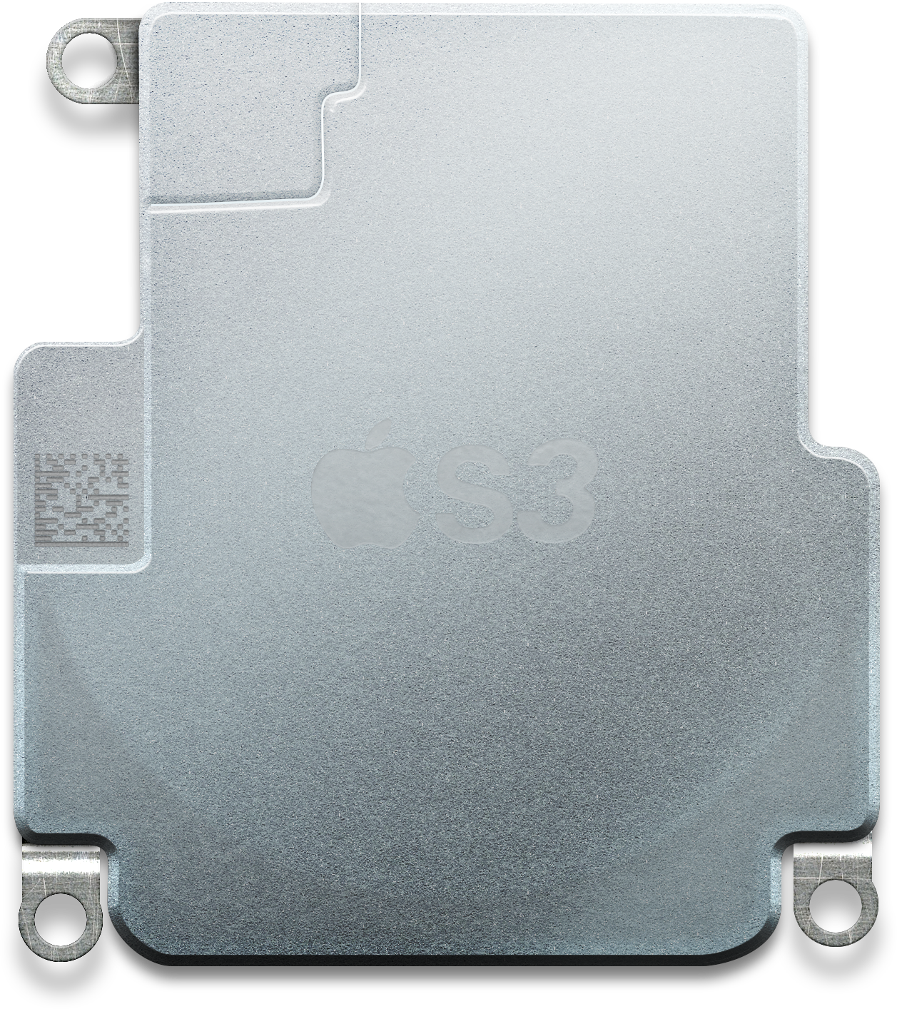 An illustration of Apple's S3 integrated computer for the Apple Watch Series 3 with its resin encapsulation showing. Inspiration for this picture comes from Apple's promo videos for the Apple Watch 2, iFixit's Apple Watch 3 teardown